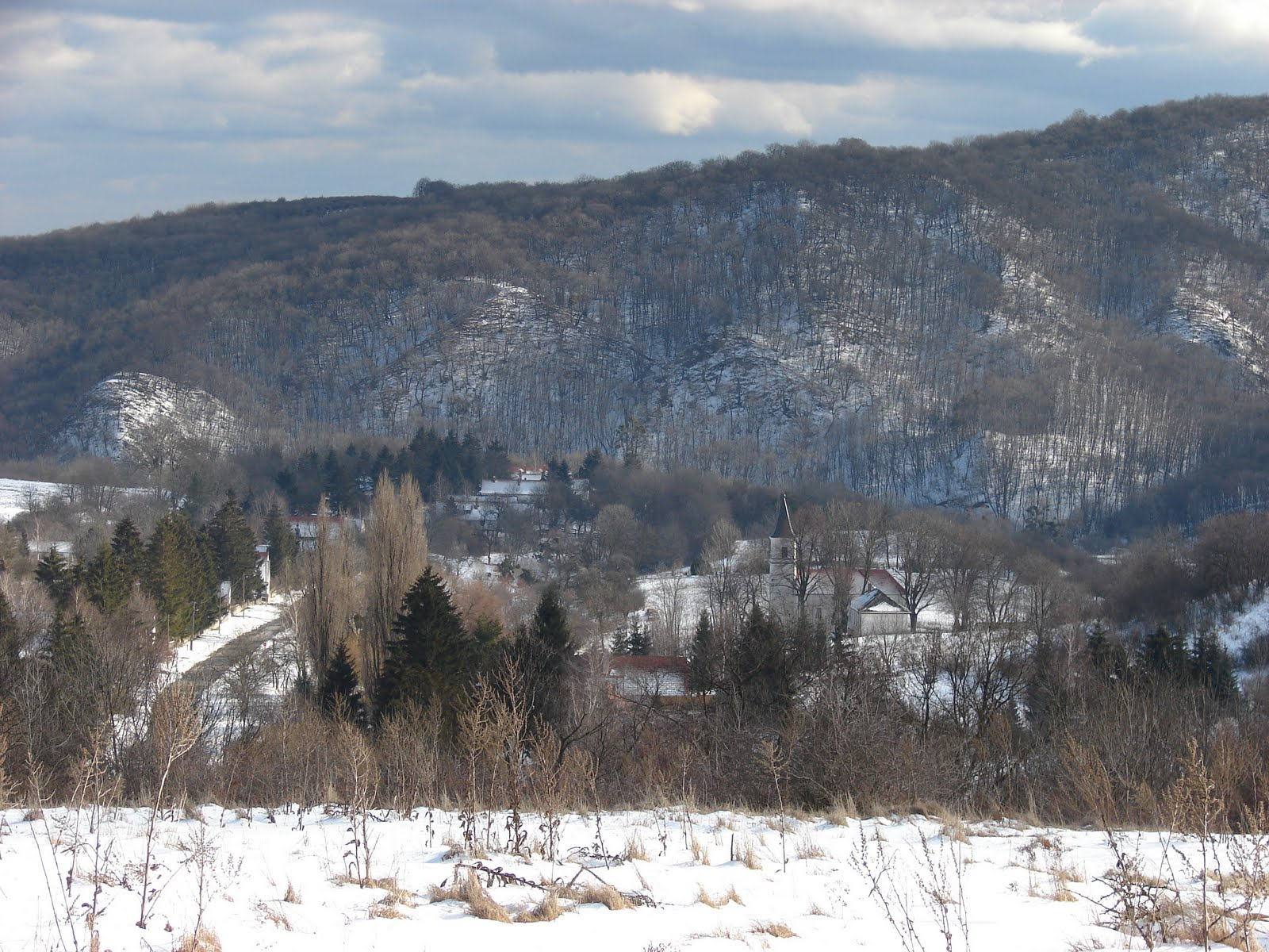 View of Vérteskozma, Fejér County